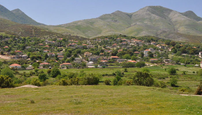 Bodrishtë